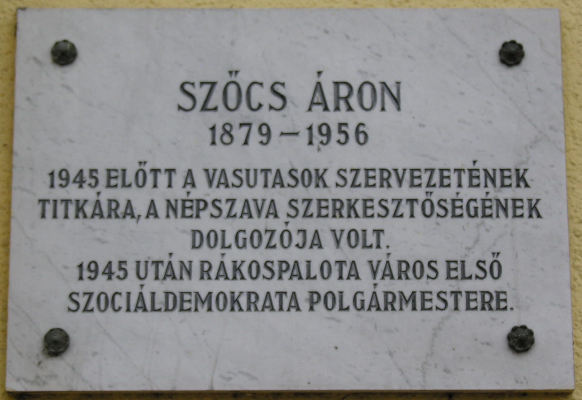 Commemorative plaque of Áron Szőcs, Budapest District XV, Hubay Jenő Square No 1